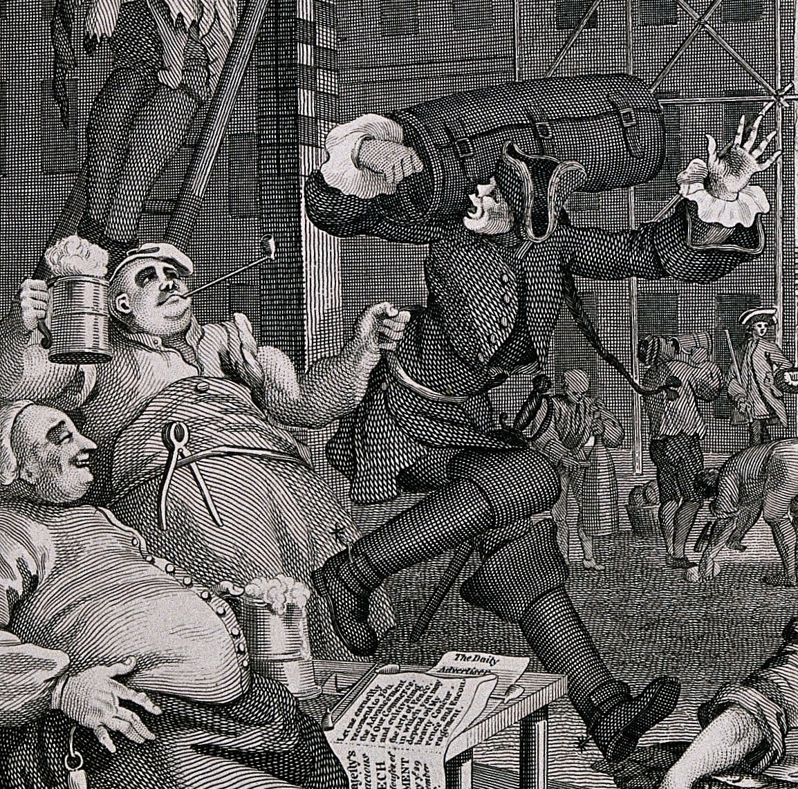 A busy street corner with traders stopping for a tankard of beer and an artist painting a pub sign. Engraving by T. Cook, c. 1800, after W. Hogarth. Iconographic Collections Keywords: Thomas Cook; William Hogarth